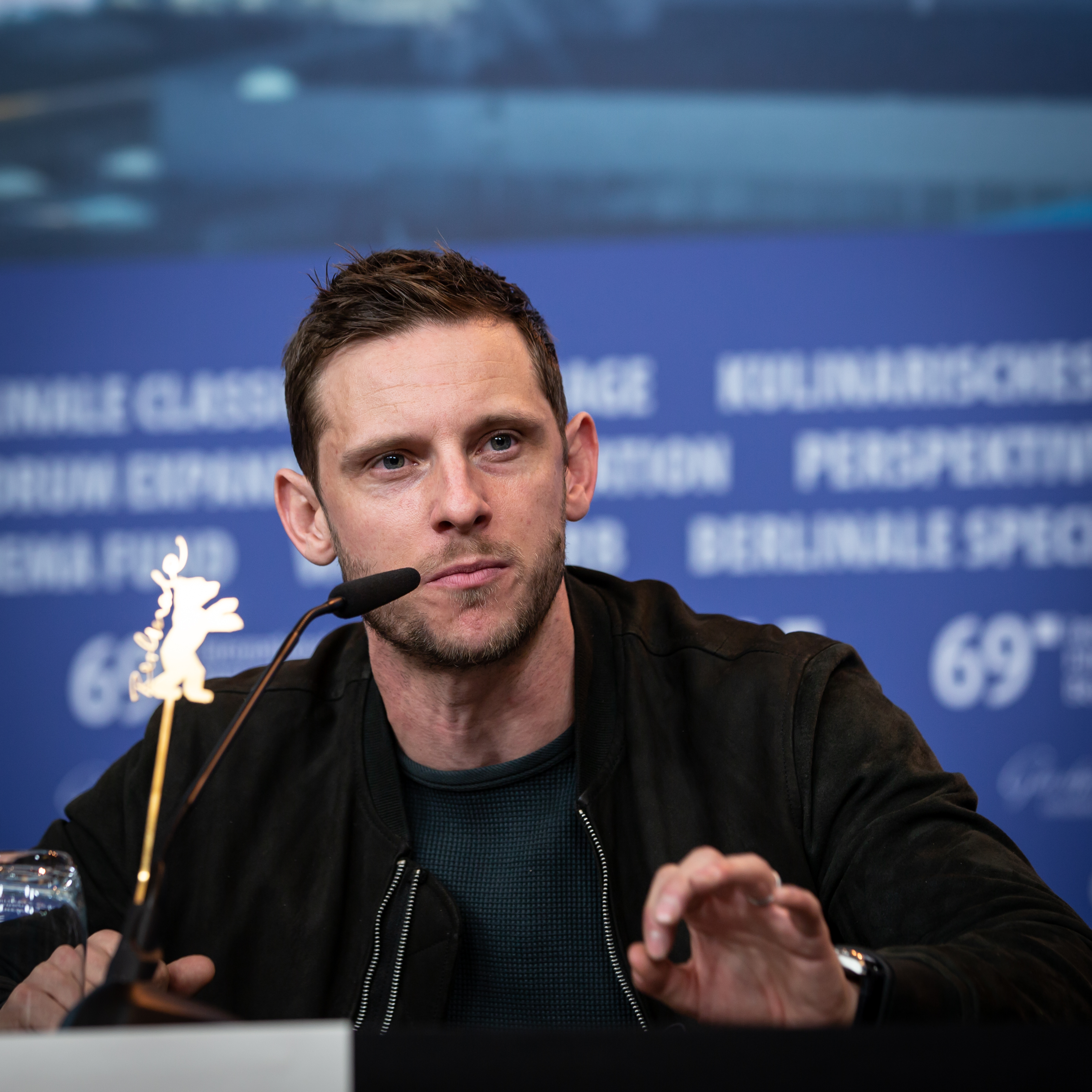 Actor Jamie Bell at the Berlinale 2019